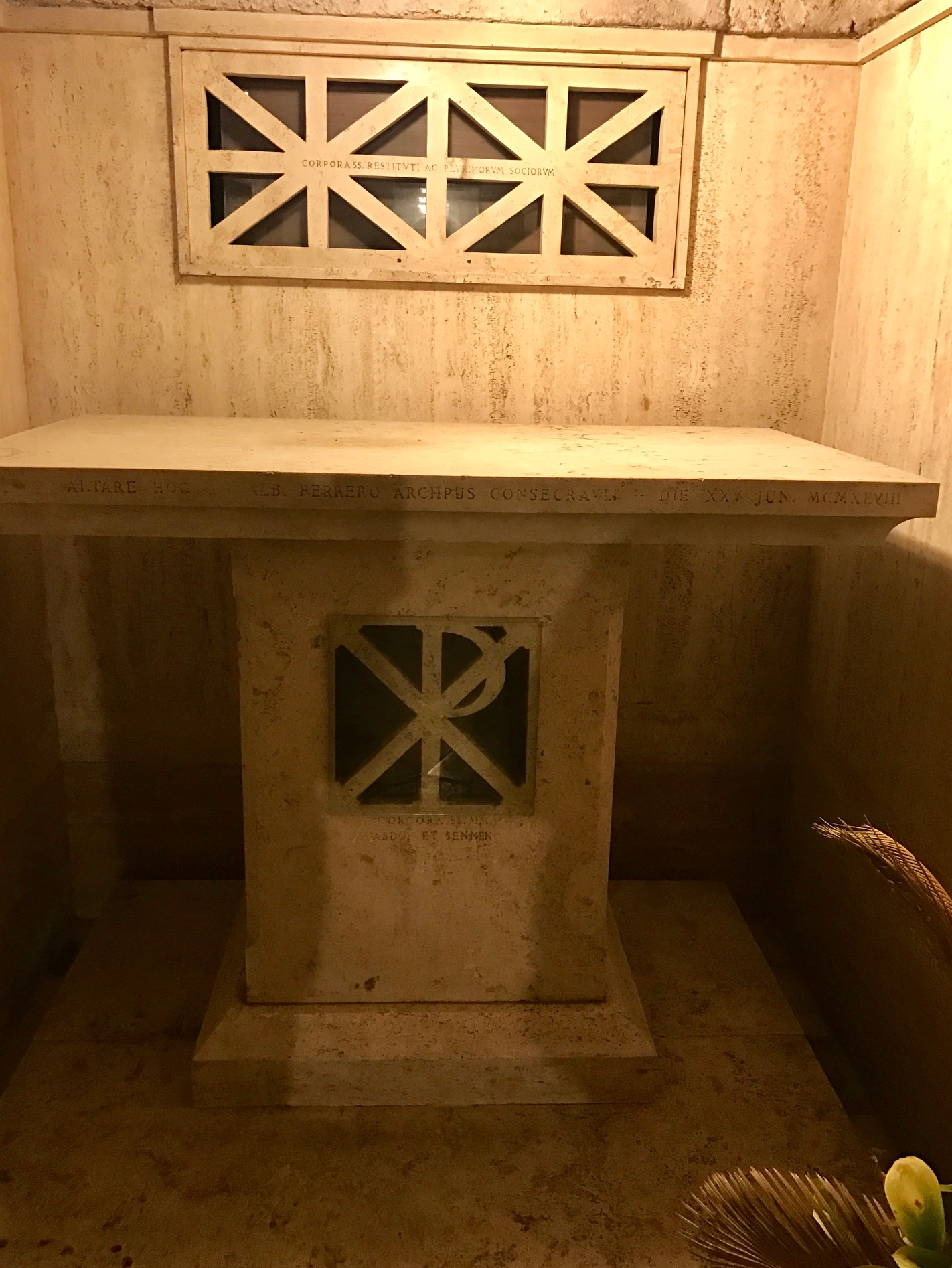 Tomb of '[Pope Mark in San Marco Evangelista al Campidoglio, Rome